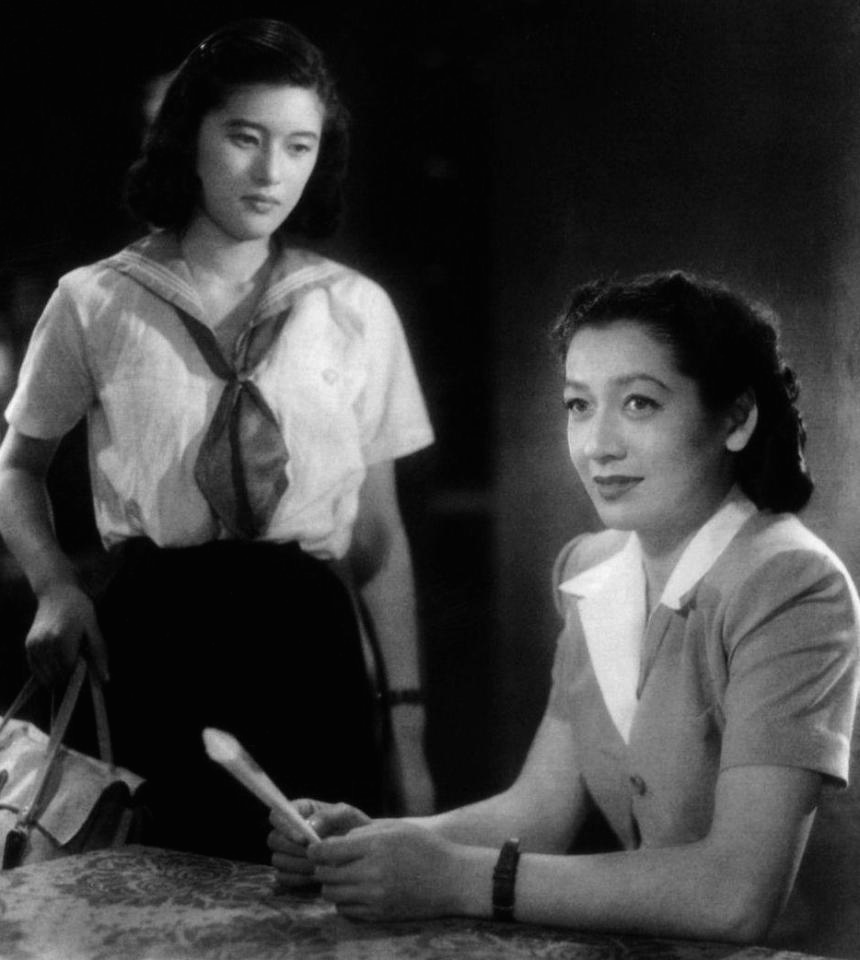 Actresses Yōko Sugi (1928– ) and Setsuko Hara (1920– , right) in the motion picture Blue Mountain Range Aoi sanmyaku (1949).